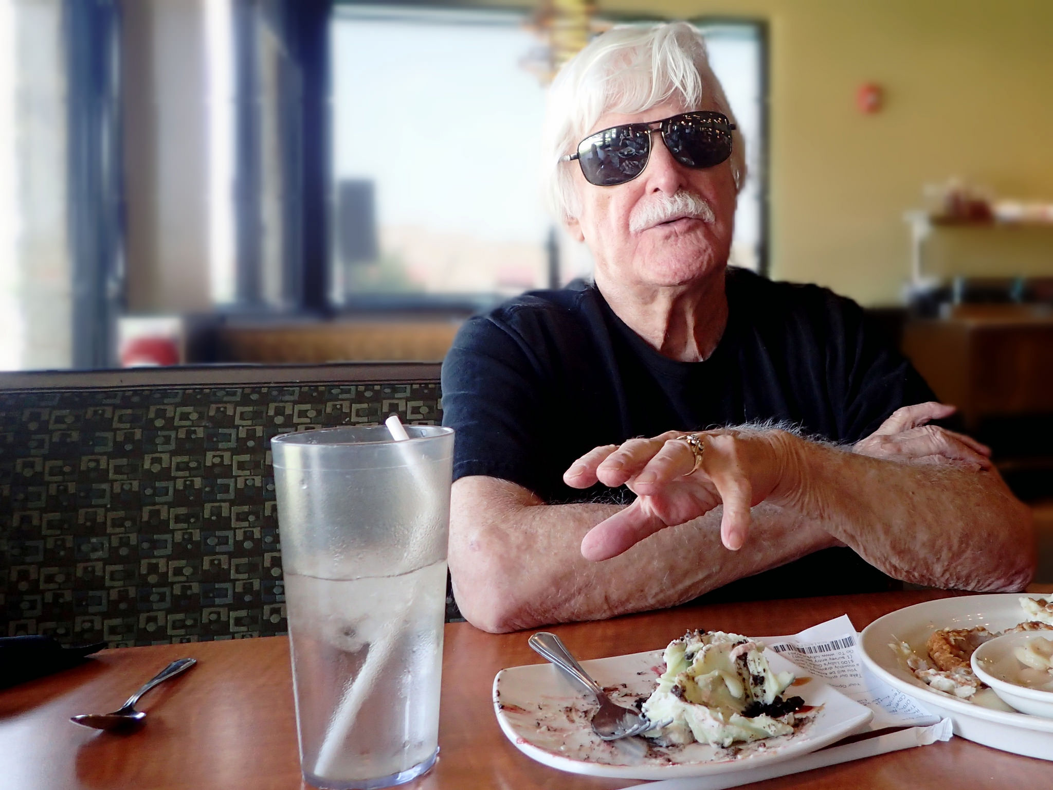 Photo of Gary Kent, B-movie stuntman and actor. Taken by Joe O'Connell